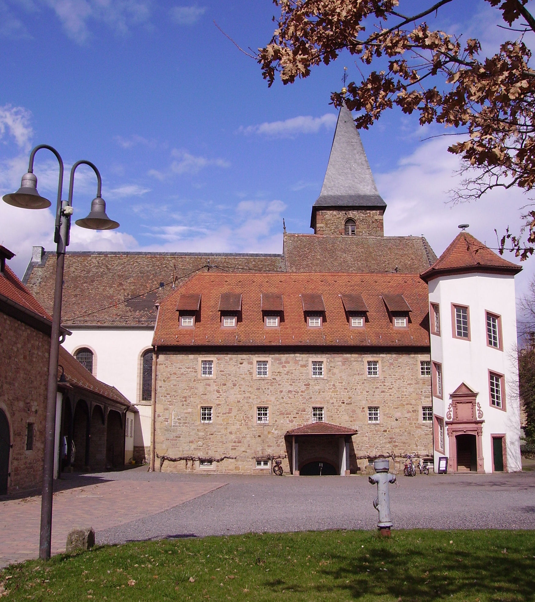 in Mußbach, part of Neustadt an der Weinstraße, Germany